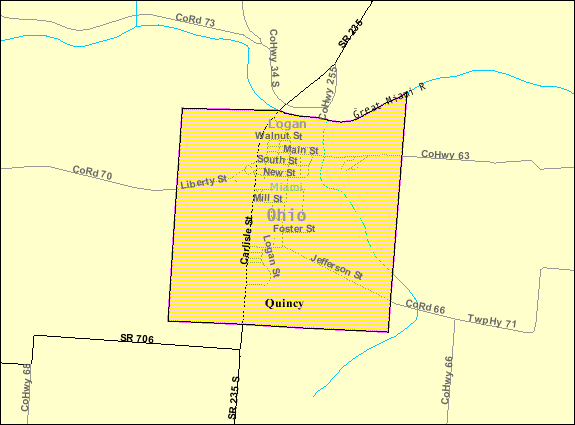 Map of Quincy, a village in Logan County, Ohio, United States, with its boundaries at the time of the 2000 census.